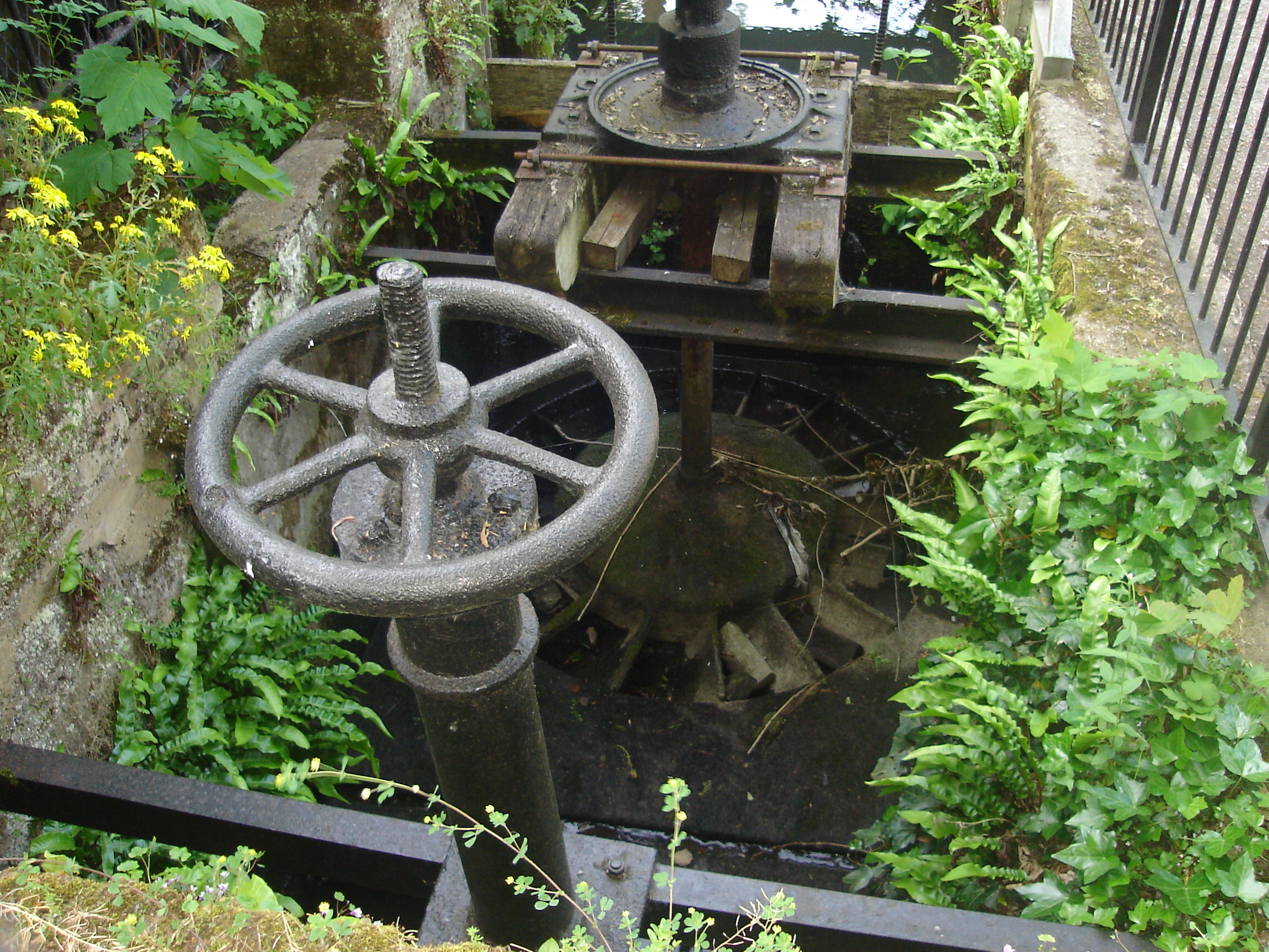 Picture of machinery at Broxbourne Mill, Hertfordshire